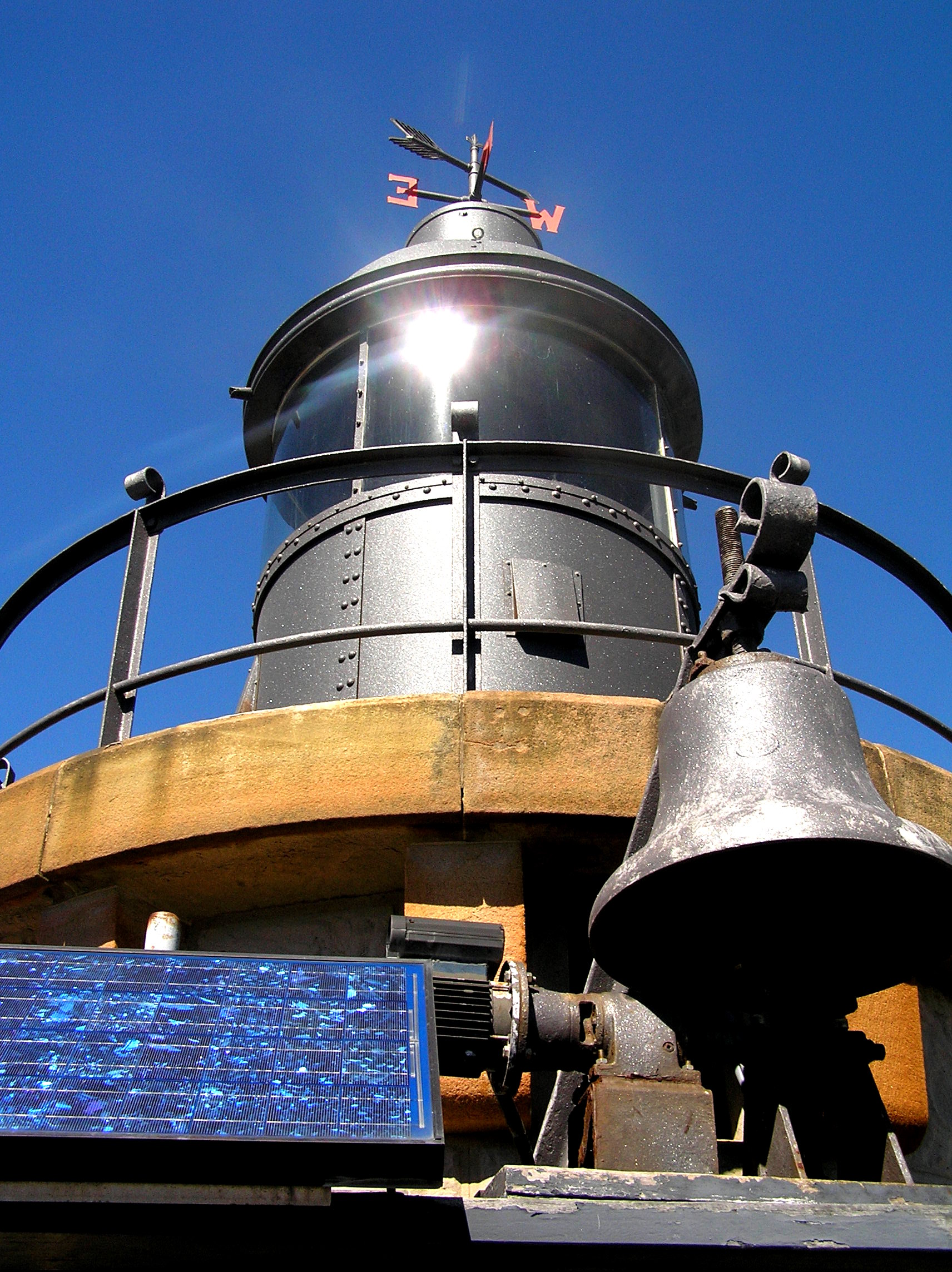 Vire of light, bell and solar panel at Fort Denison Light